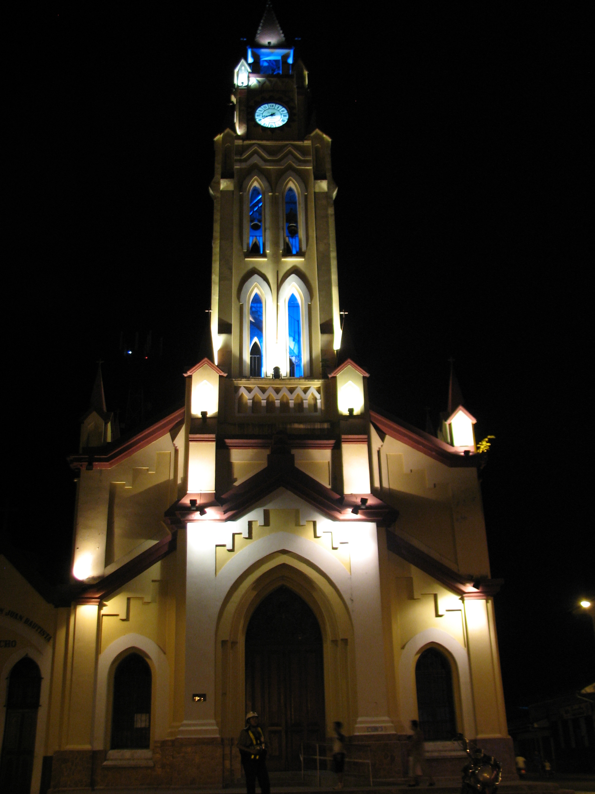 Cathedral in Iquitos at night —Iquitos/Maynas/Loreto, Peru